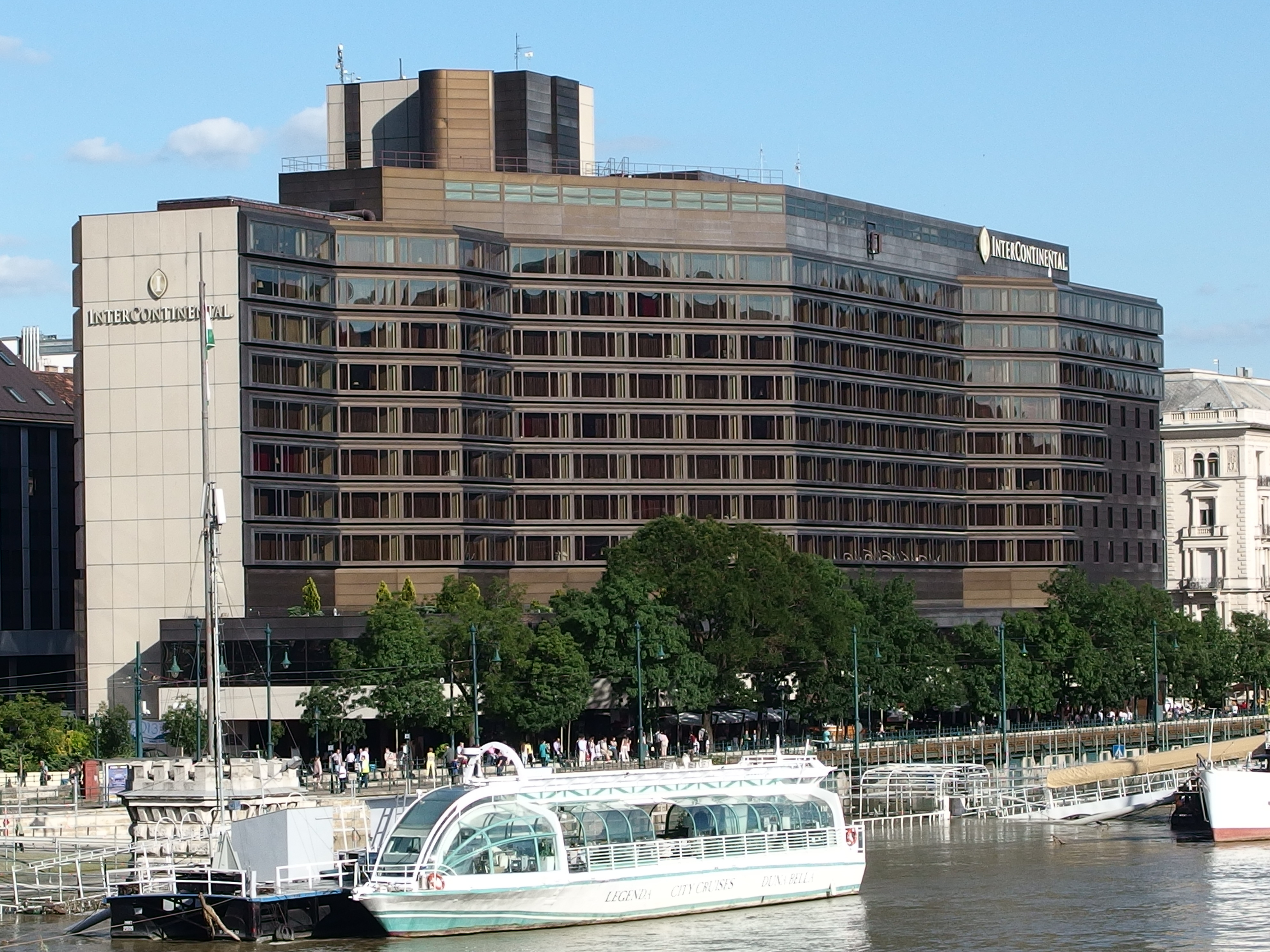 Delfin I. or II. (ship, 1979) /Class: NESTIN MS-25 minesweeper; Built: 1979, Brodotechnika, Beograd/ [1] or [2] AND InterContinental Budapest, 2013-06-13 in Budapest.